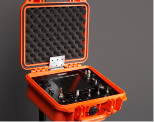 Lehmann Aviation common Ground Control System.png